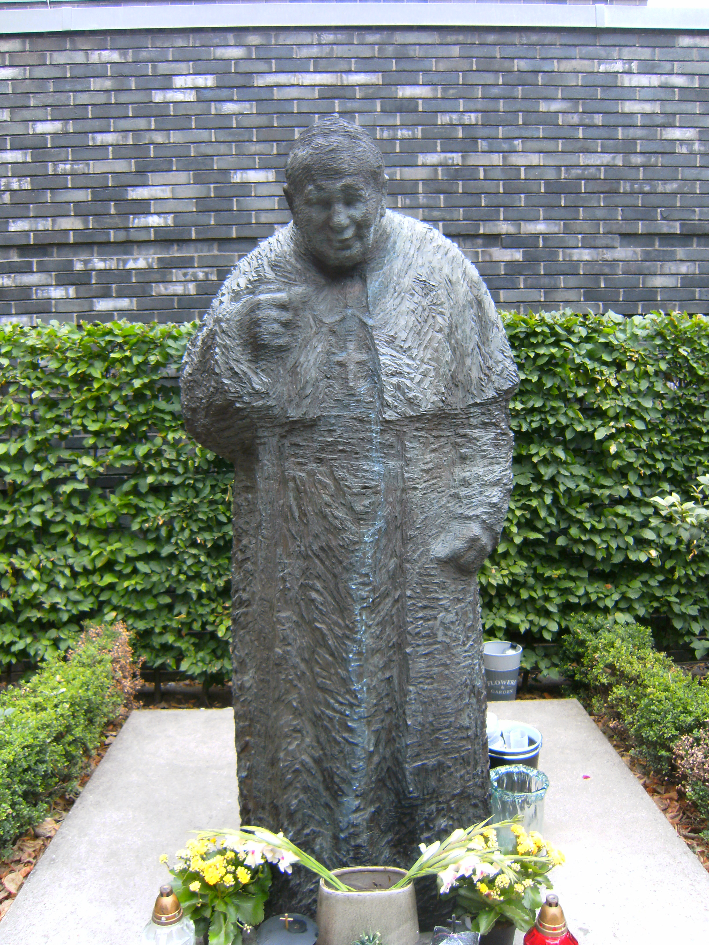 Hamburg, St. Marien-Dom: Statue of Pope John Paul II by sculptor Józek Nowak.